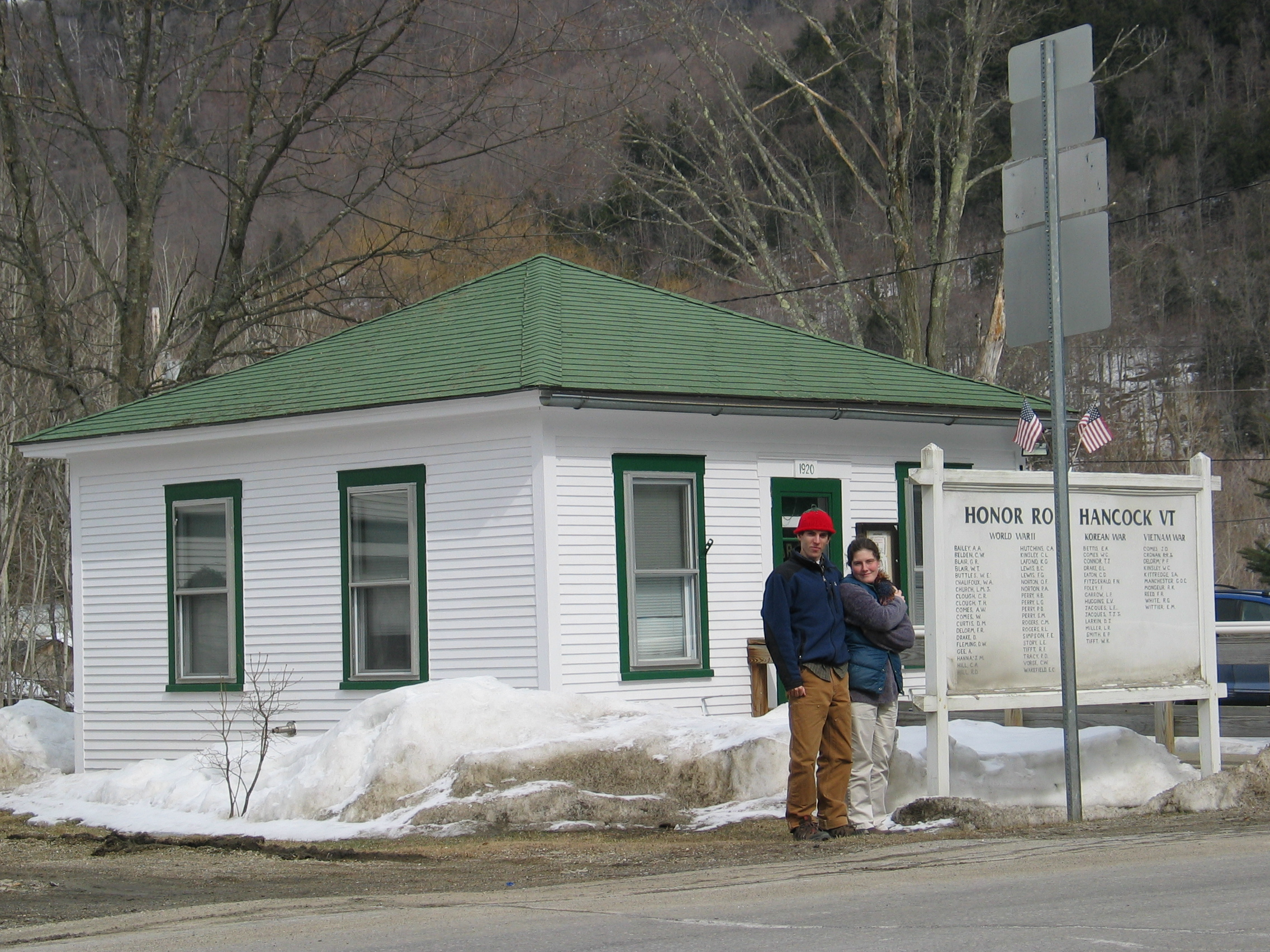 Hancock, Vermont (library)